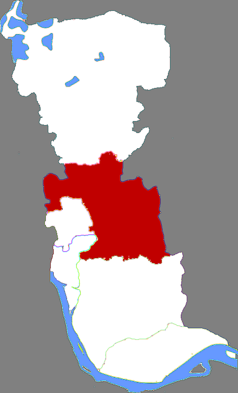 Location of Jiangyan district in Taizhou city of Jiangsu province, China